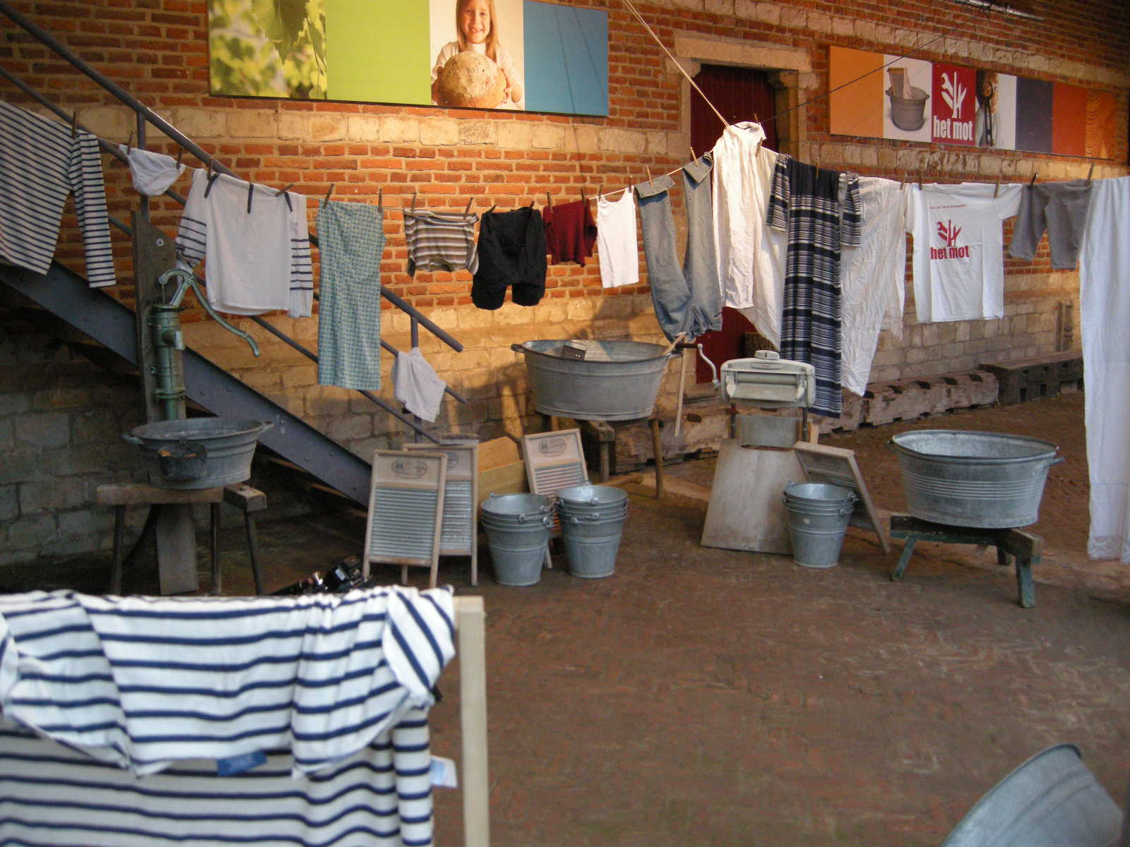 Laundry day